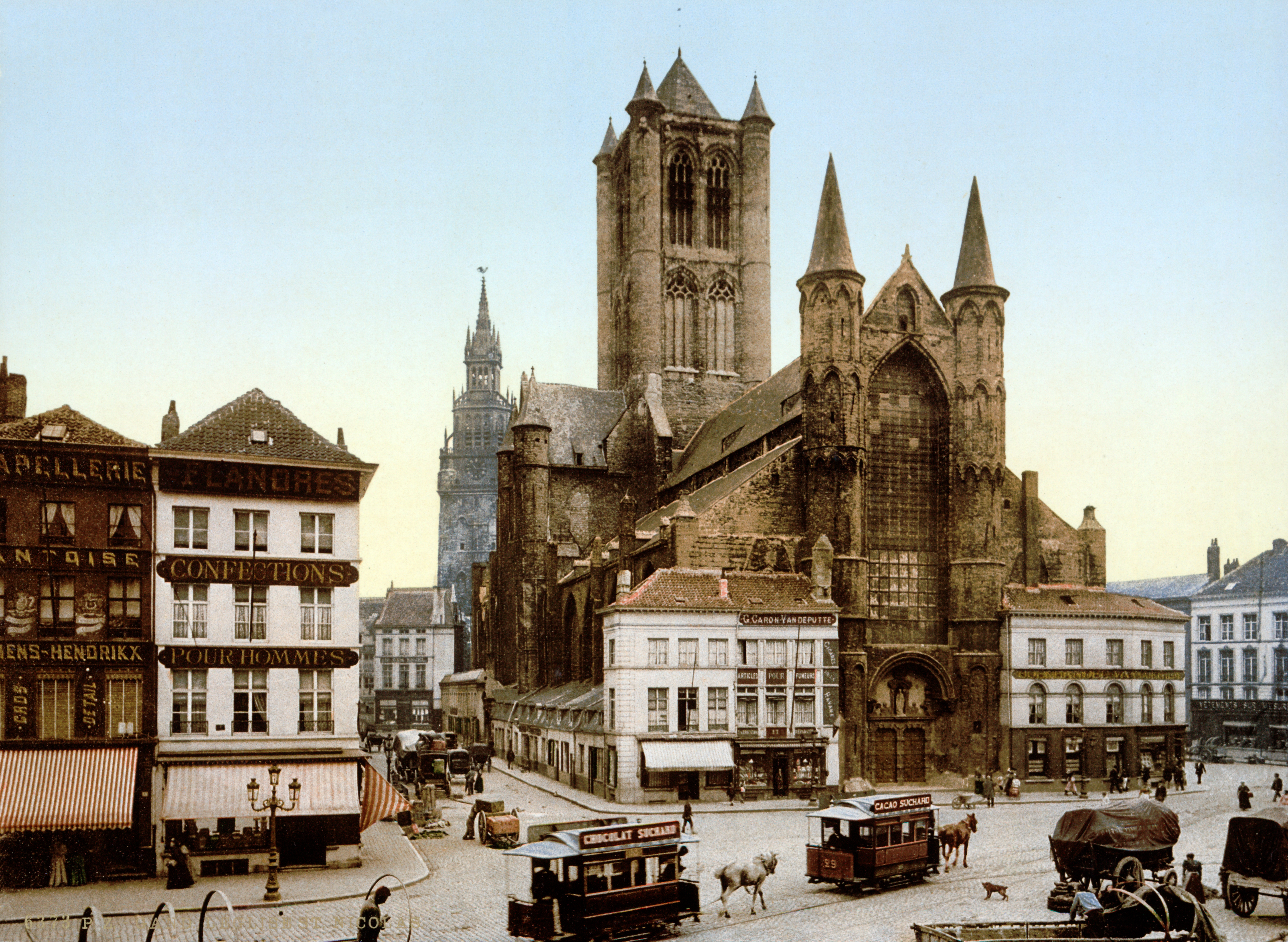 View of Saint Nicholas' Church and Klein Turkije, Korenmarkt, Ghent, Belgium. This image shows the state of the church before the houses alongside the church were demolished. In the background: the belfry with the cast iron campanile which replaced the medieval wooden spire in 1851 (and which was itself replaced by a stone bell tower in 1913).